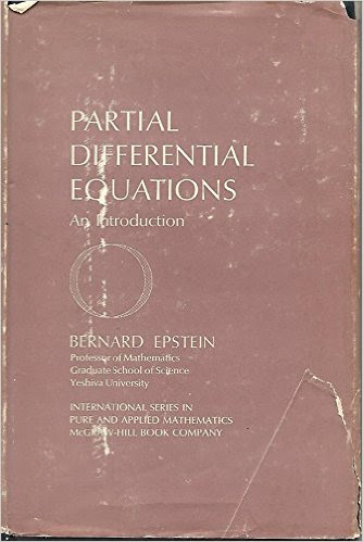 Partial Differential Equations textbook